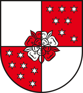 Coat of Arms of Osterwieck